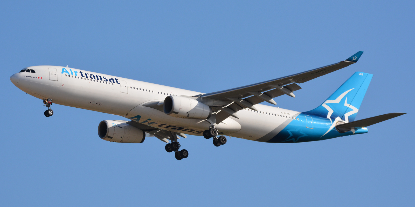 Paris-Charles de Gaulle Airport